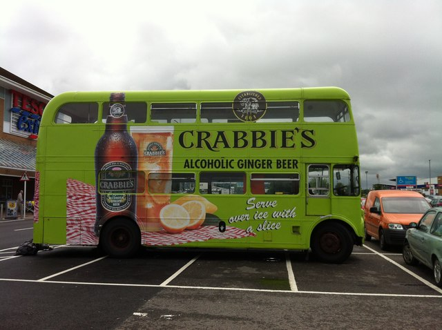 'Crabbies' advertising bus at Tesco, Inverness. NH6945 :: 'Crabbies' advertising bus at Tesco, Inverness, near to Smithton, Highland, Great Britain